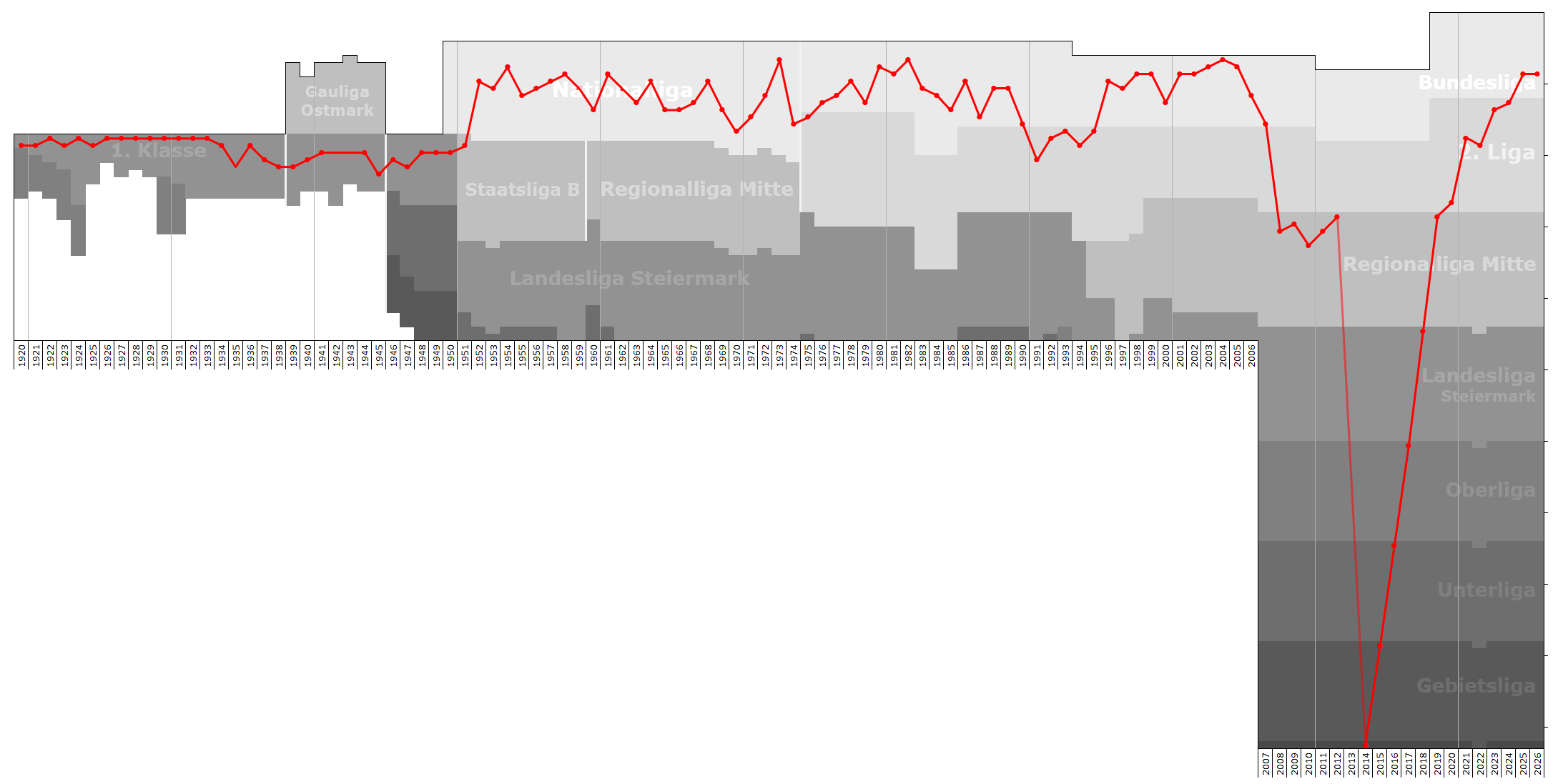 Chart of end-season table positions of GAK and its predecessors in the Austrian football league system. Data source: RSSSF, , regiowiki.at, stfv.at, wikipedia